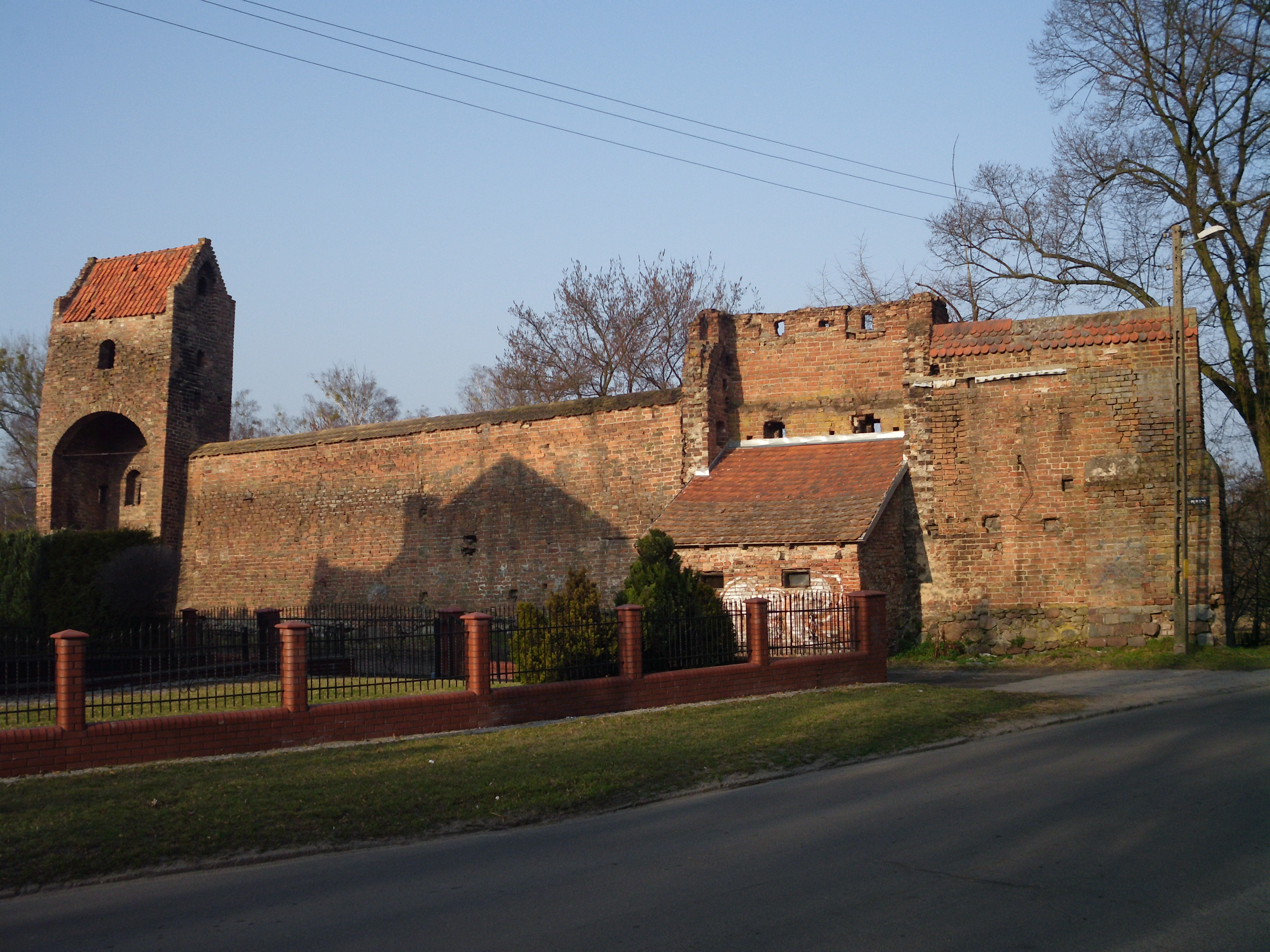 Remains of city walls in Chojna, Poland.